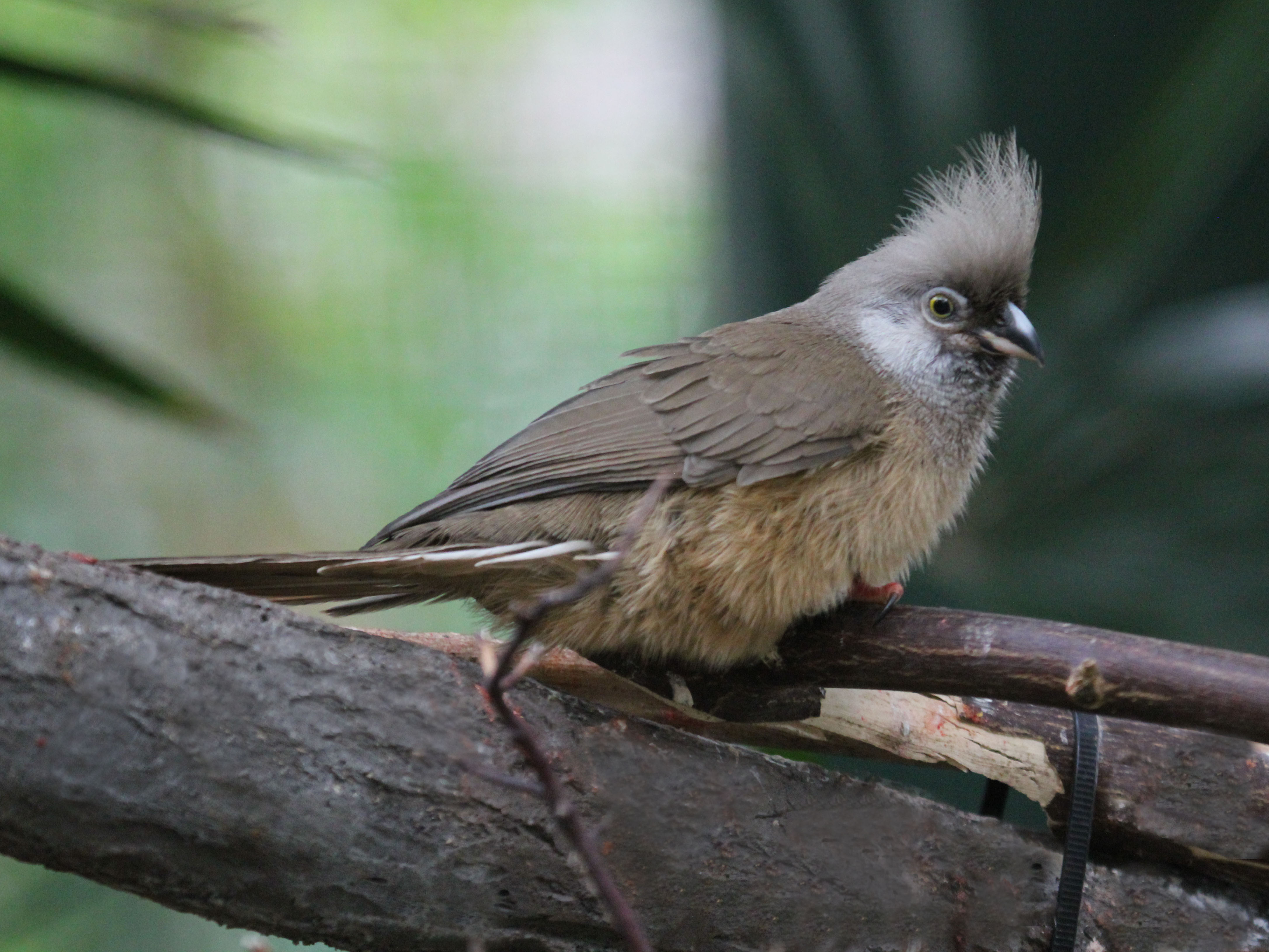 Speckled Mousebird (Colius striatus) - San Diego Zoo